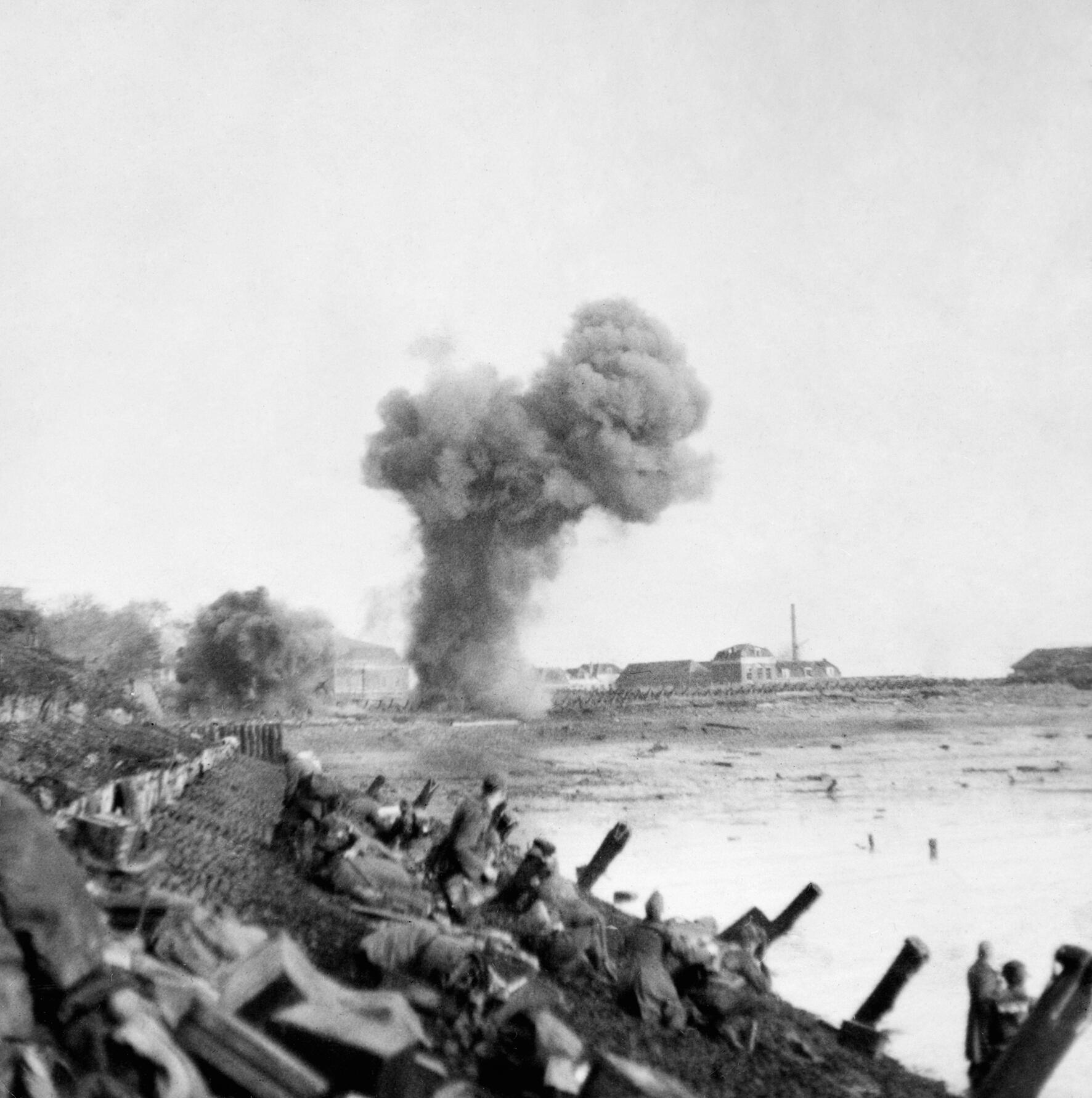 British Landings on Walcheren British assault troops landed on Walcheren at dawn on 1 November 1944 and most of Flushing was included in the first bridgehead. The landings were supported by fire from British warships. The object of the assault is to silence the enemy guns menacing the Scheldt passage to the port of Antwerp. This image shows troops advancing along the waterfront near Flushing with shells bursting ahead.